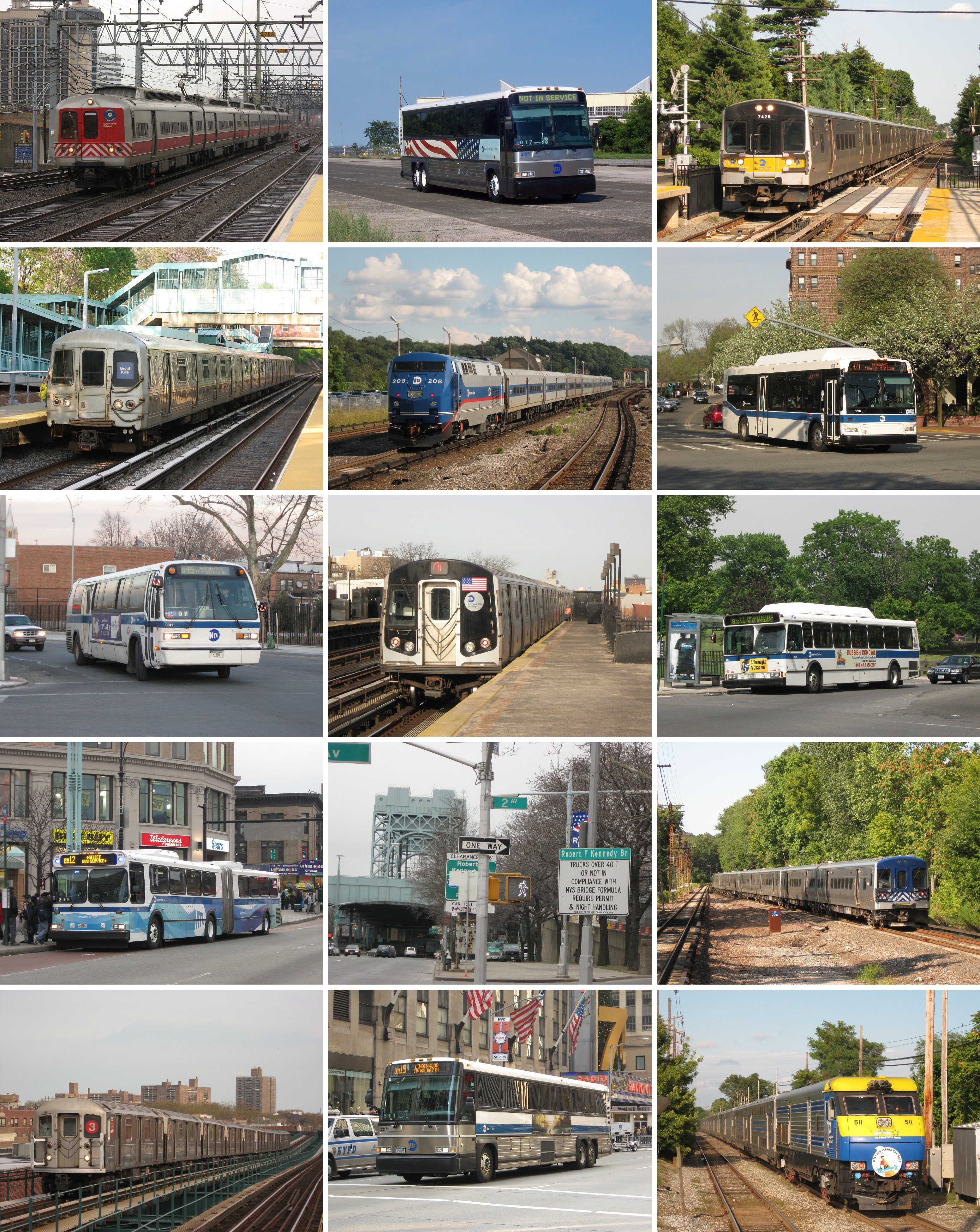 This is a picture showing all MTA services, including the entrance to the RFK Bridge from Manhattan.